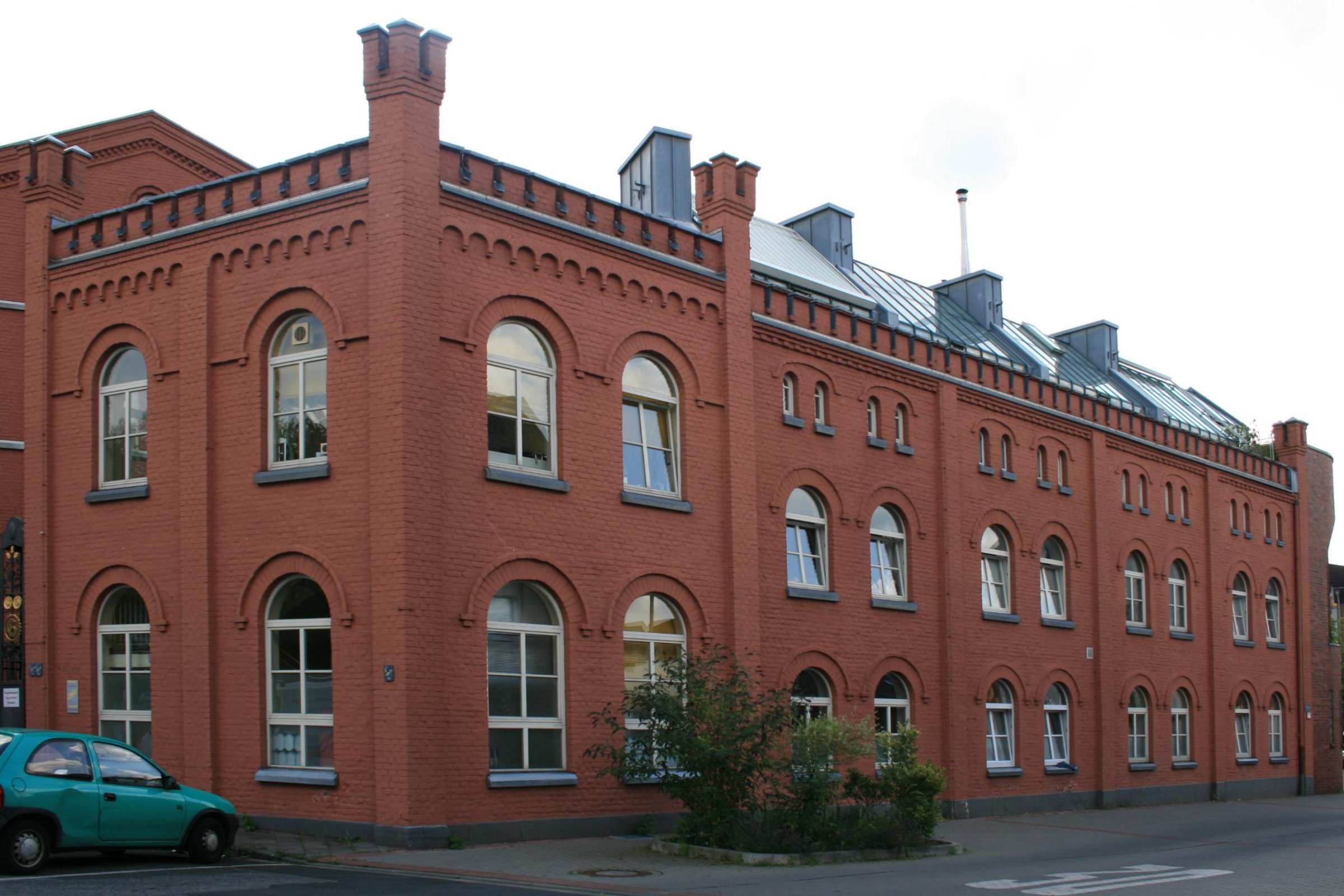 Cultural heritage monument No. U 008 in Mönchengladbach